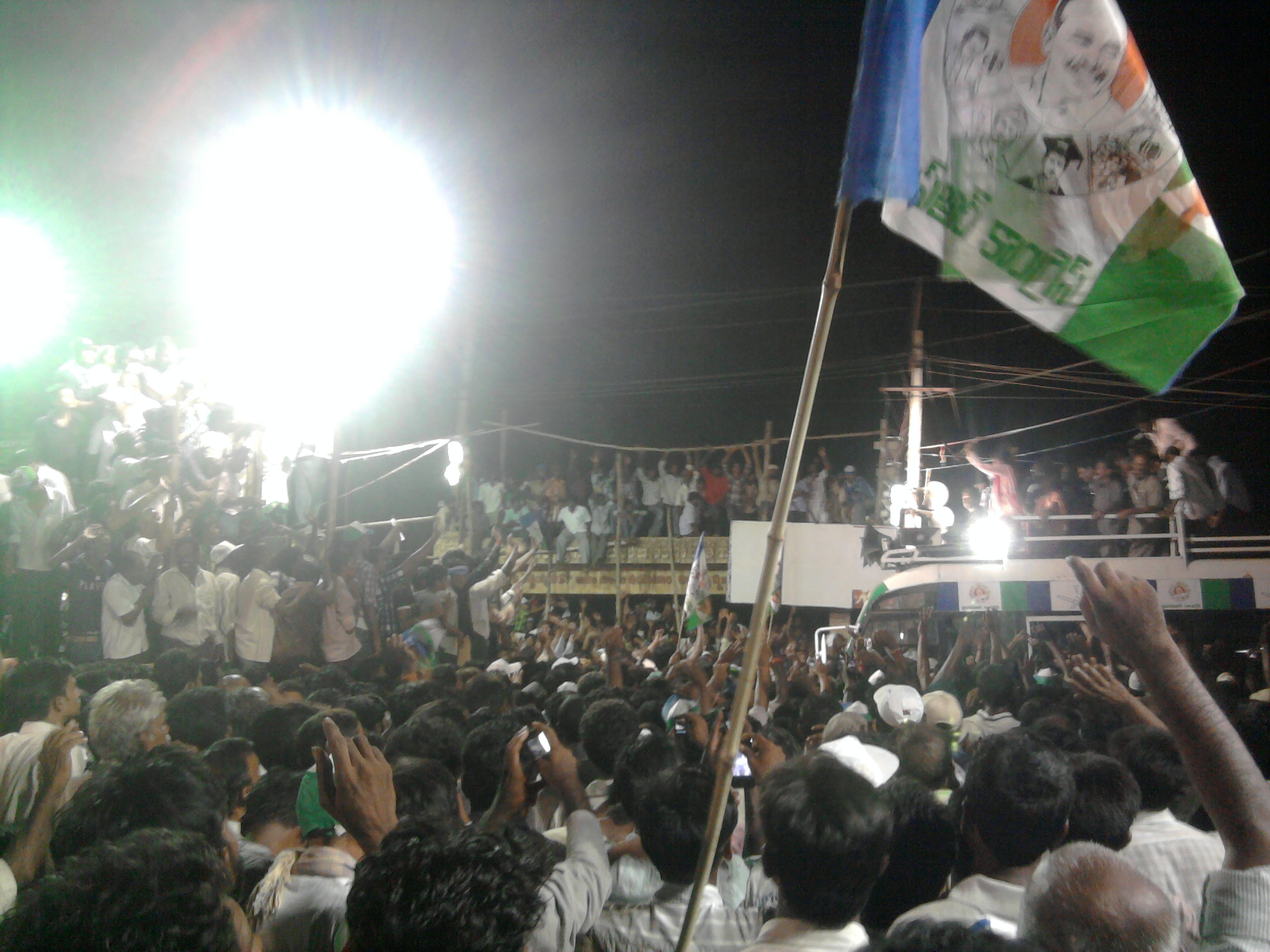 Sharmila Speech in YSR Congress Party meeting in Vinjamoor, Nellore District, A.P.